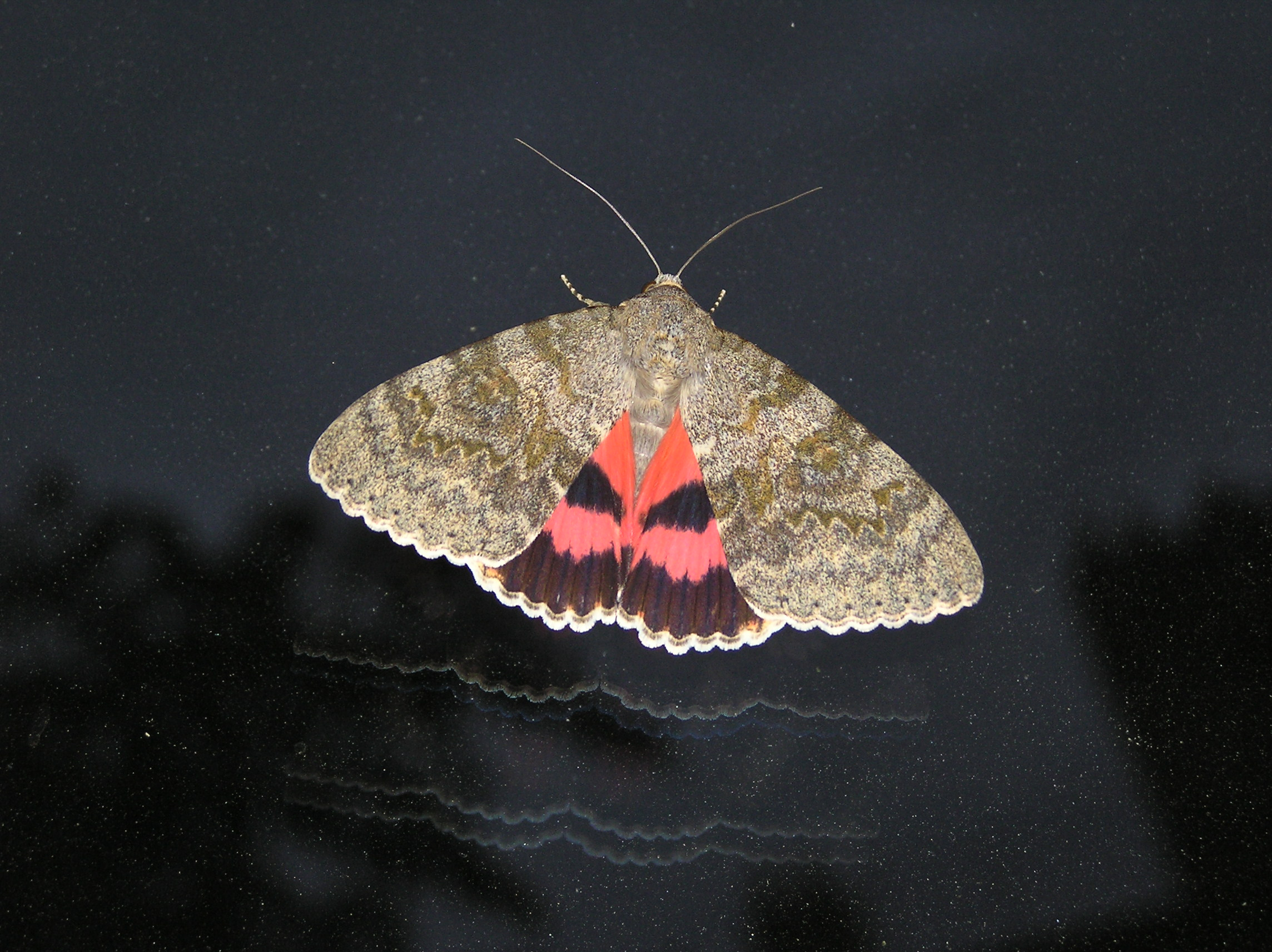 Catocala elocata, photographed in Prague, 2006-08-08.